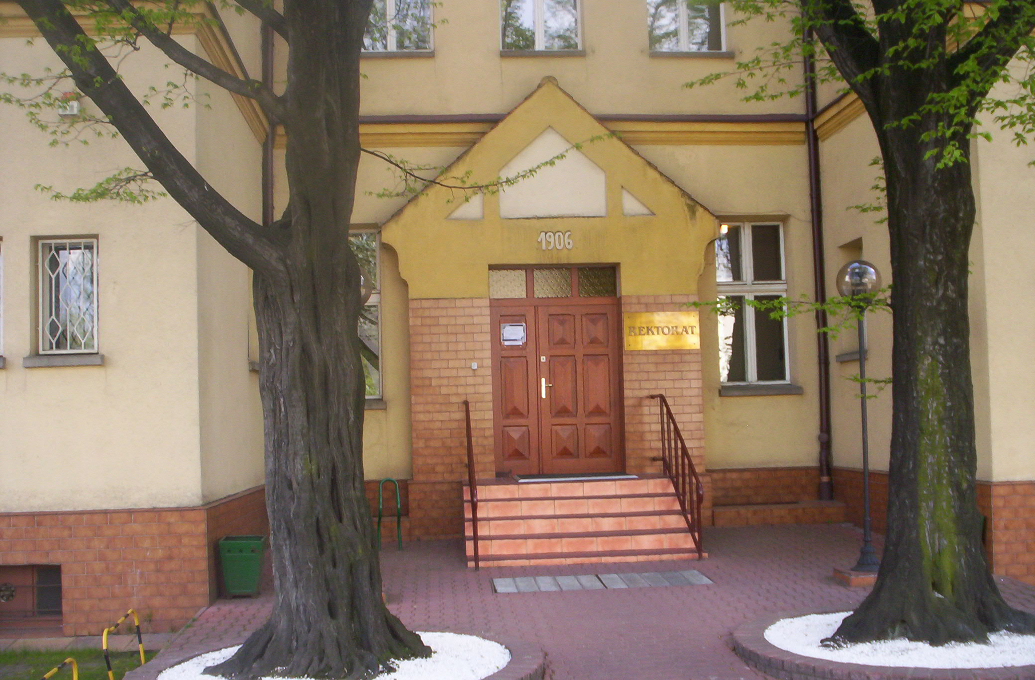 Wrocław University of Economics. Picture taken on April 26, 2005 by Paweł Dembowski.